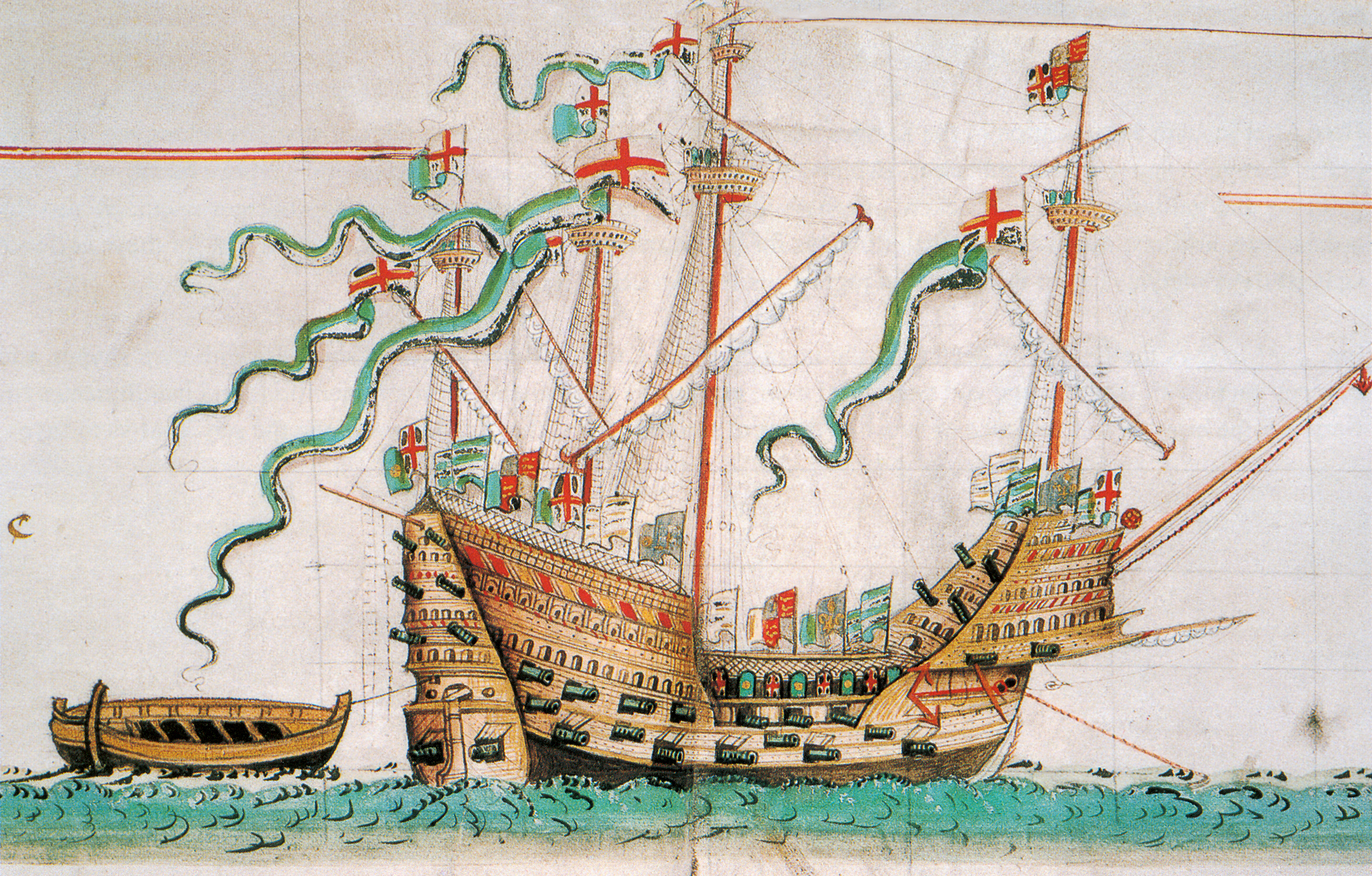 Illustration of the carrack Mary Rose. Notification about possible deletion